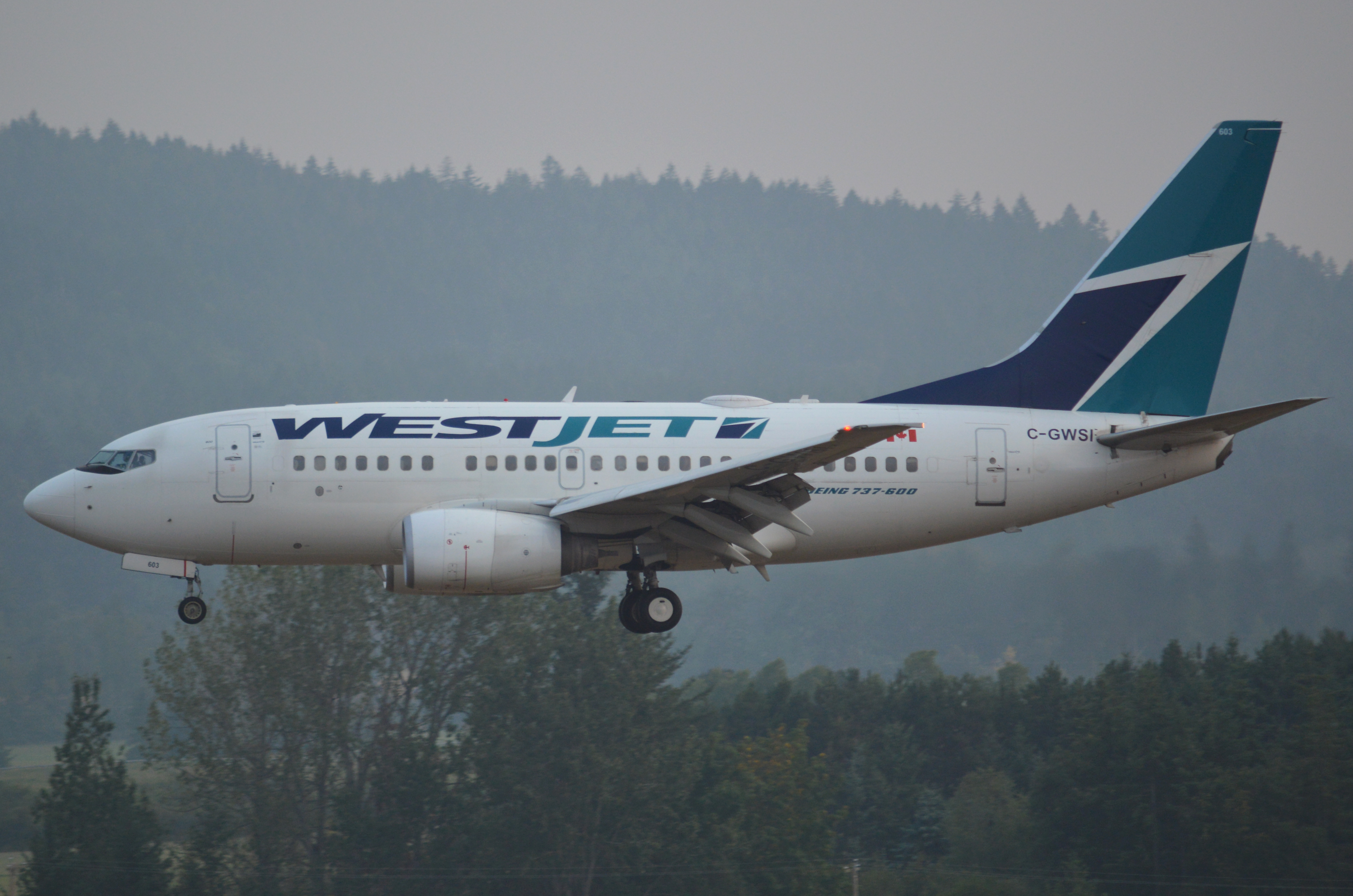 WestJet Boeing 737-600 C-GWSI landing on Runway 09, Victoria International Airport, August 2018.